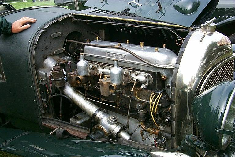 Bentley 4½-litre supercharged 4-seater tourer 1931 delivered September 1931 Chassis MS3938 Engine MS3940 Reg GT 8771 B L O W N ! how it should look